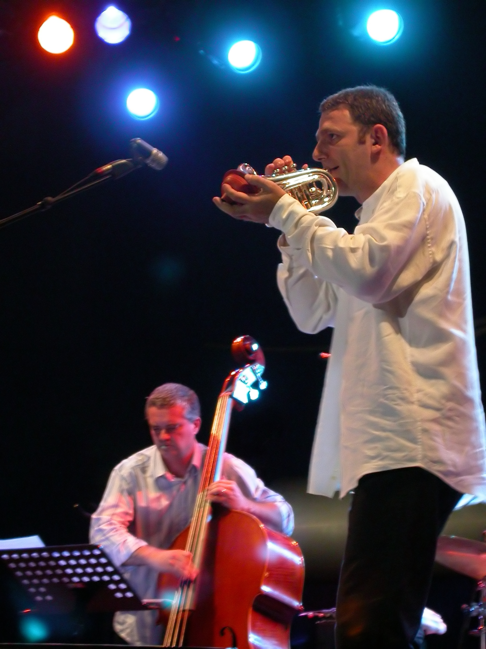 Laurent Mignard, révélations jazz Juan 2005